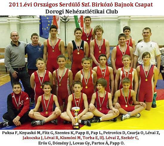 The winner wresler team of Dorog